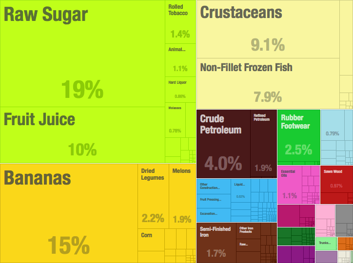 Treemap showing products exported by Belize during 2015